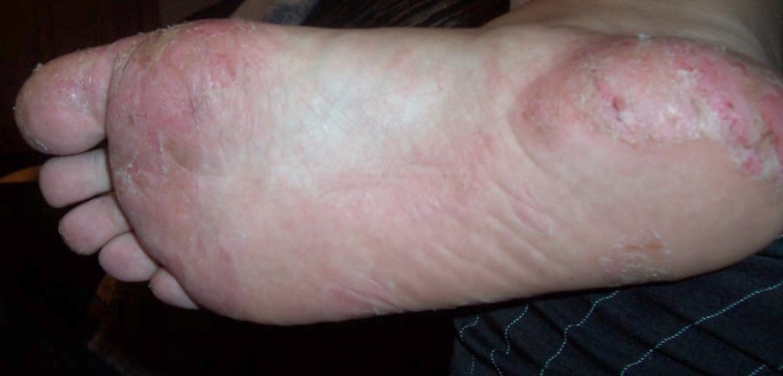 late stage of dyshidrosis on the sole